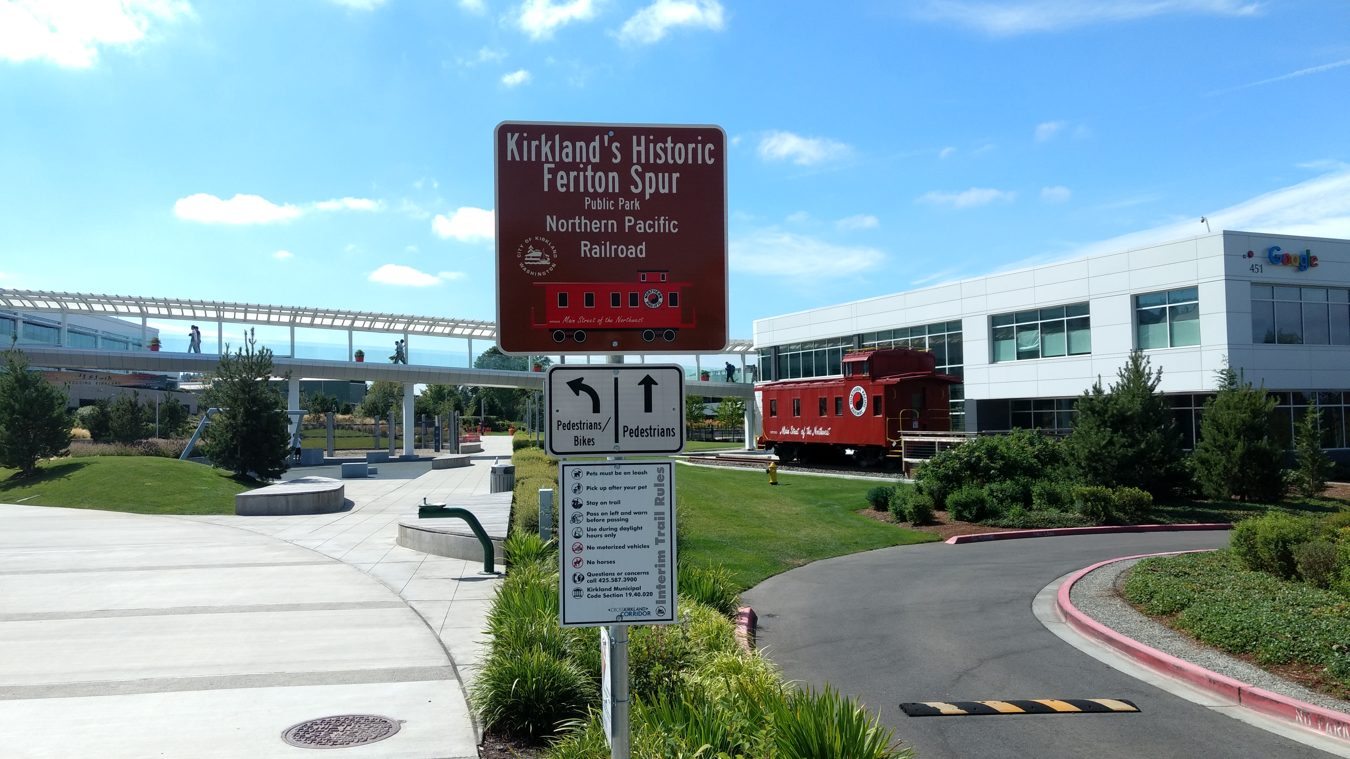 The sign welcoming the public to Cross Kirkland Corridor's Feriton Spur Park surrounded by the Google campus in Kirkland, Washington.